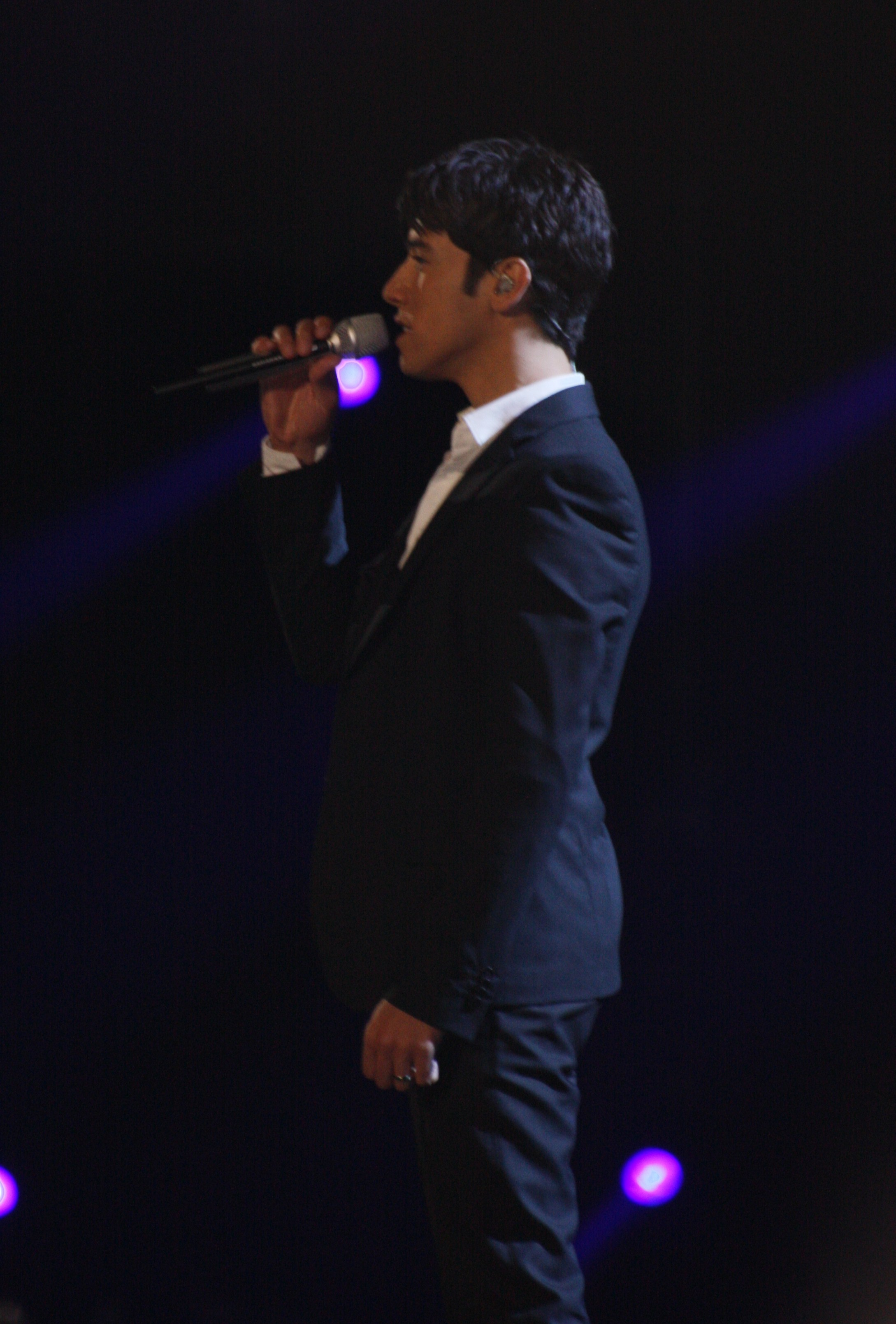 Harel Skaat, artist of Israel in Eurovision Song Contest 2010, rehearsal, Telenor Arena. Norway.